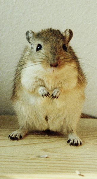 one of my gerbils